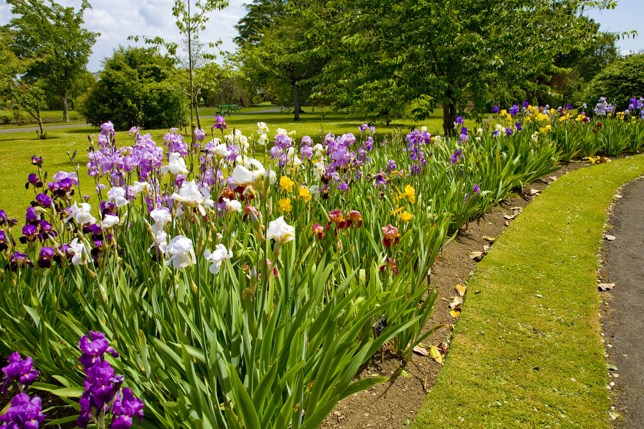 Flowers (Iris sp.), Irish National Botanic Gardens, Glasnevin, Dublin, Ireland.